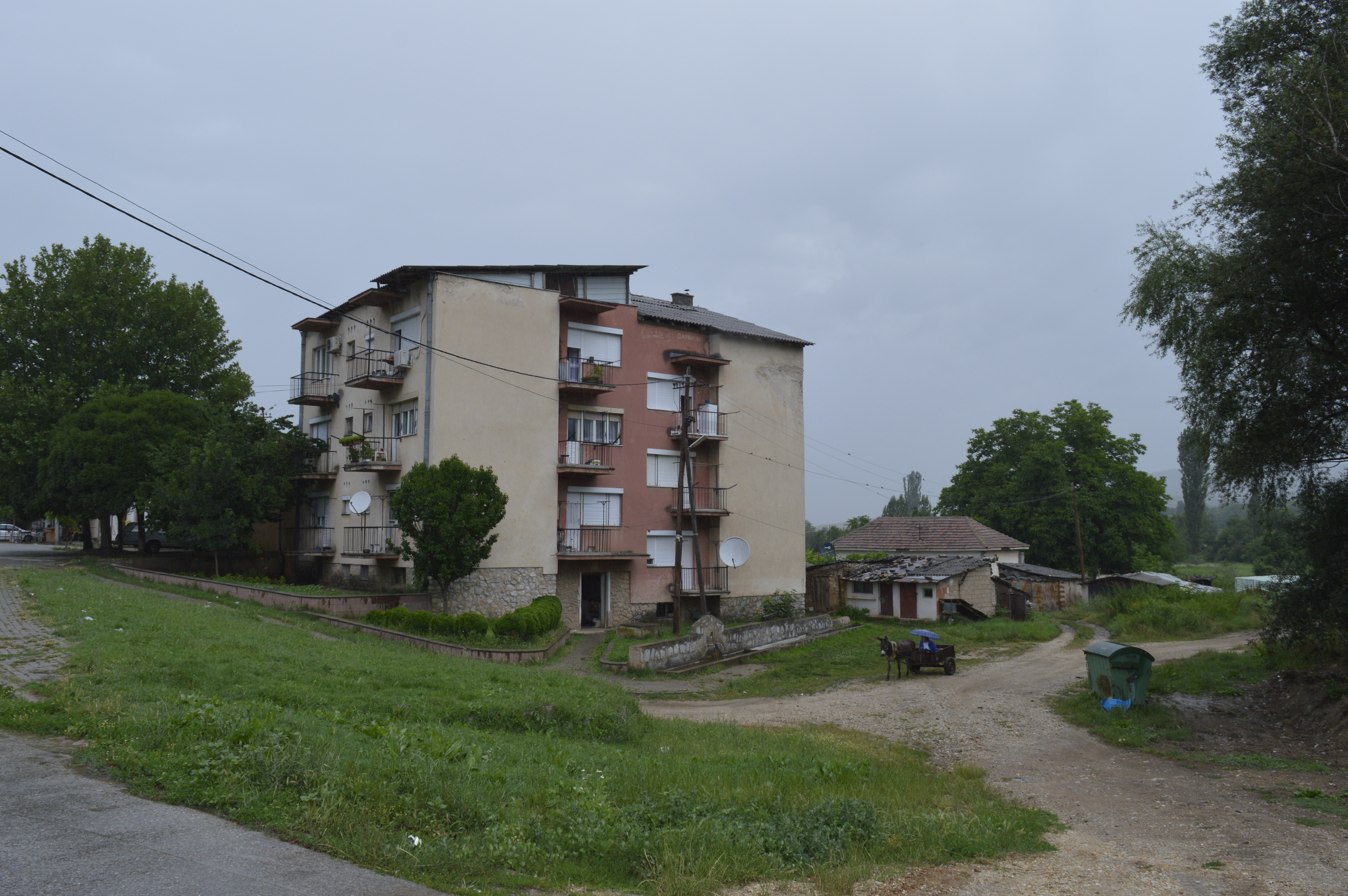 Apartments in the village Izvor